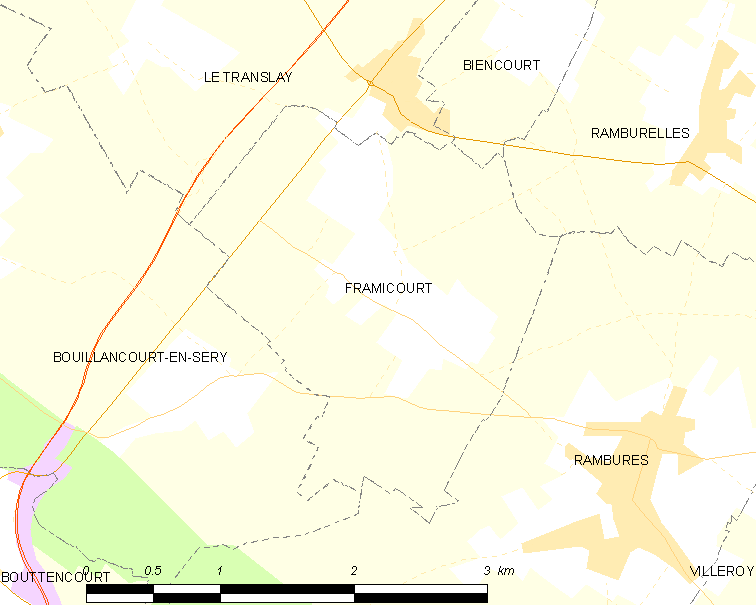 Map of French municipality Framicourt